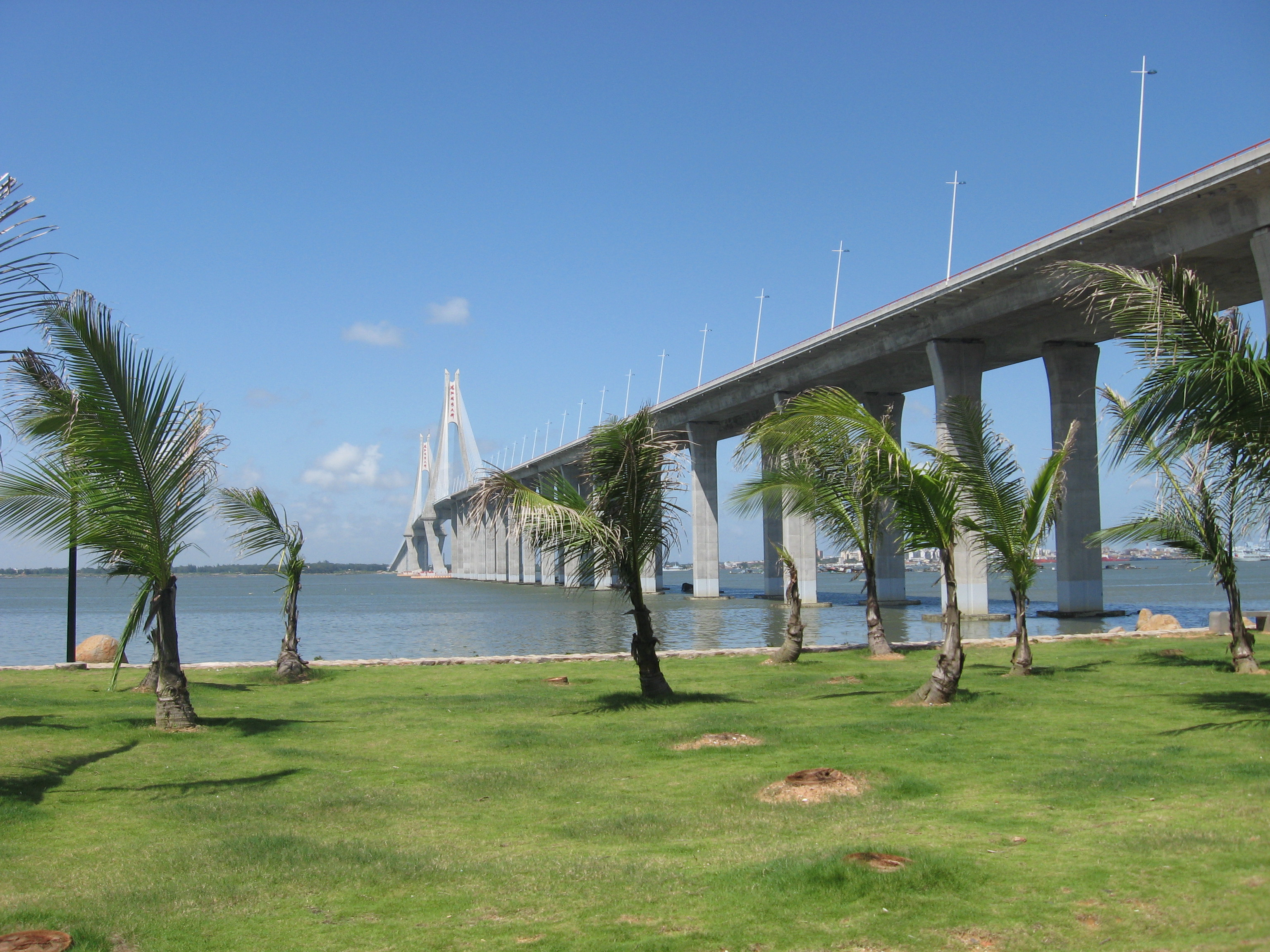 The Zhanjiang Bay Bridge, China / The Haiwan bridge seen from the Zhanjiang waterfront park.